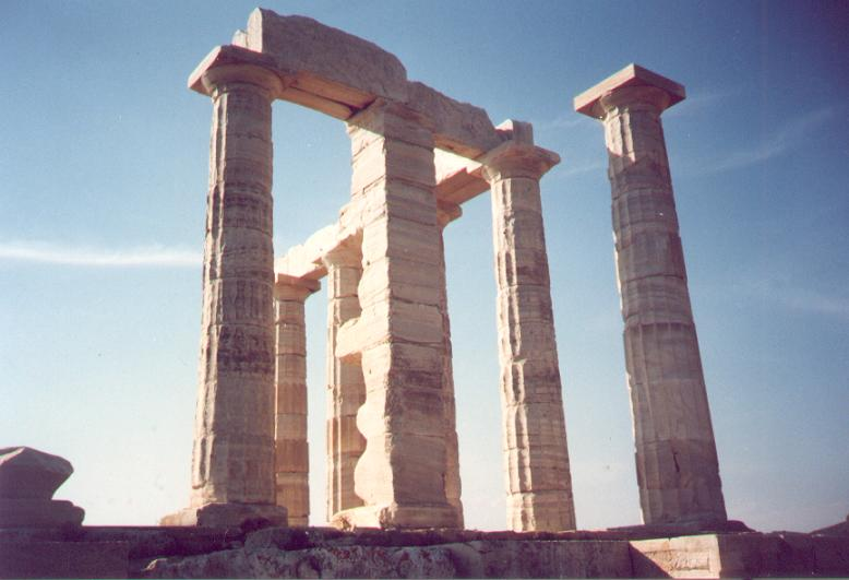 Temple of Poseidon at Cape Sounion